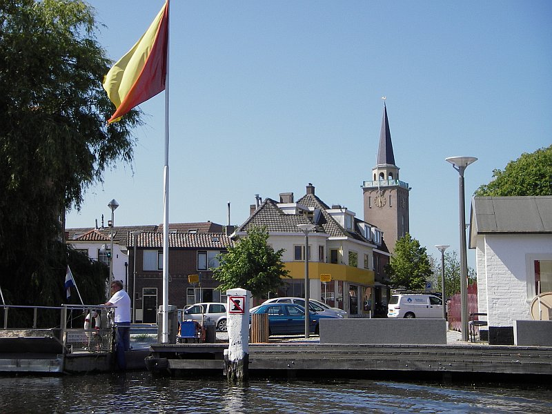 View on Valkenburg, zuid-holland. Churchtower and ferry, seen from the Rhine